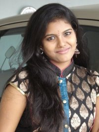 Singer Roshini Image